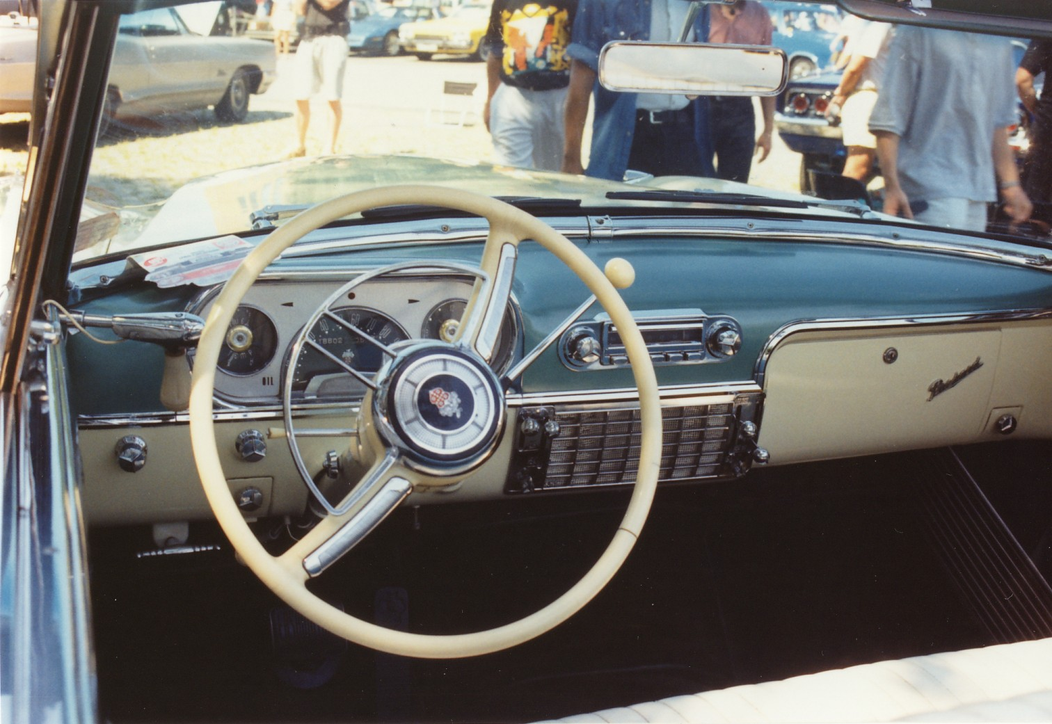 1954 Packard Caribbean Convertible model 5431-5478, at car-show in Hamburg, Germany. Ultramatic automatic transmission is standard equipment on this car.